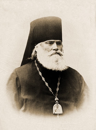 Makarij Gnewushev